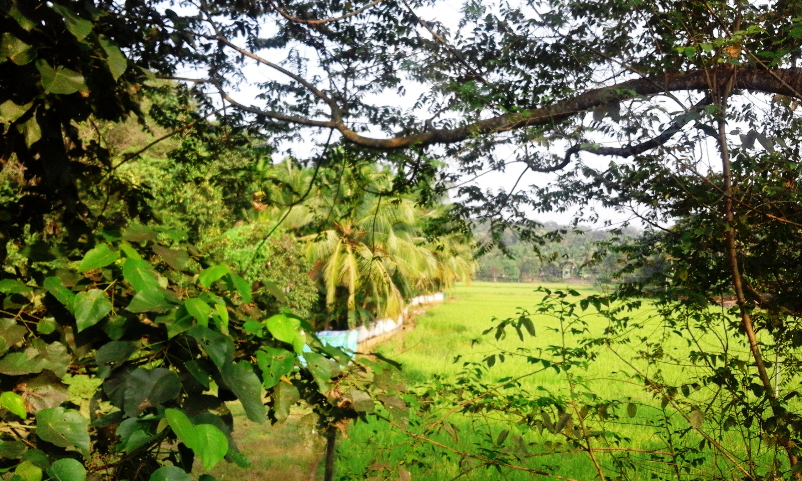 South Malabar